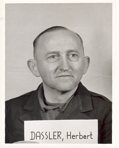 Herbert Dassler (1902-1957) at the Nuremberg Trials. Dassler was a Memebrr of the NSDAP and the "Reichstag". This photograph of Dassler (probably as a witness) was taken by US Army photographers on behalf of the Office of the U.S. Chief of Counsel for the Prosecution of Axis Criminality (OUSCCPAC, May 1945 - Oct. 1946) or its successor organization, the Office of Chief of Counsel for War Crimes (OCCWC, Oct. 1946 - June 1949).